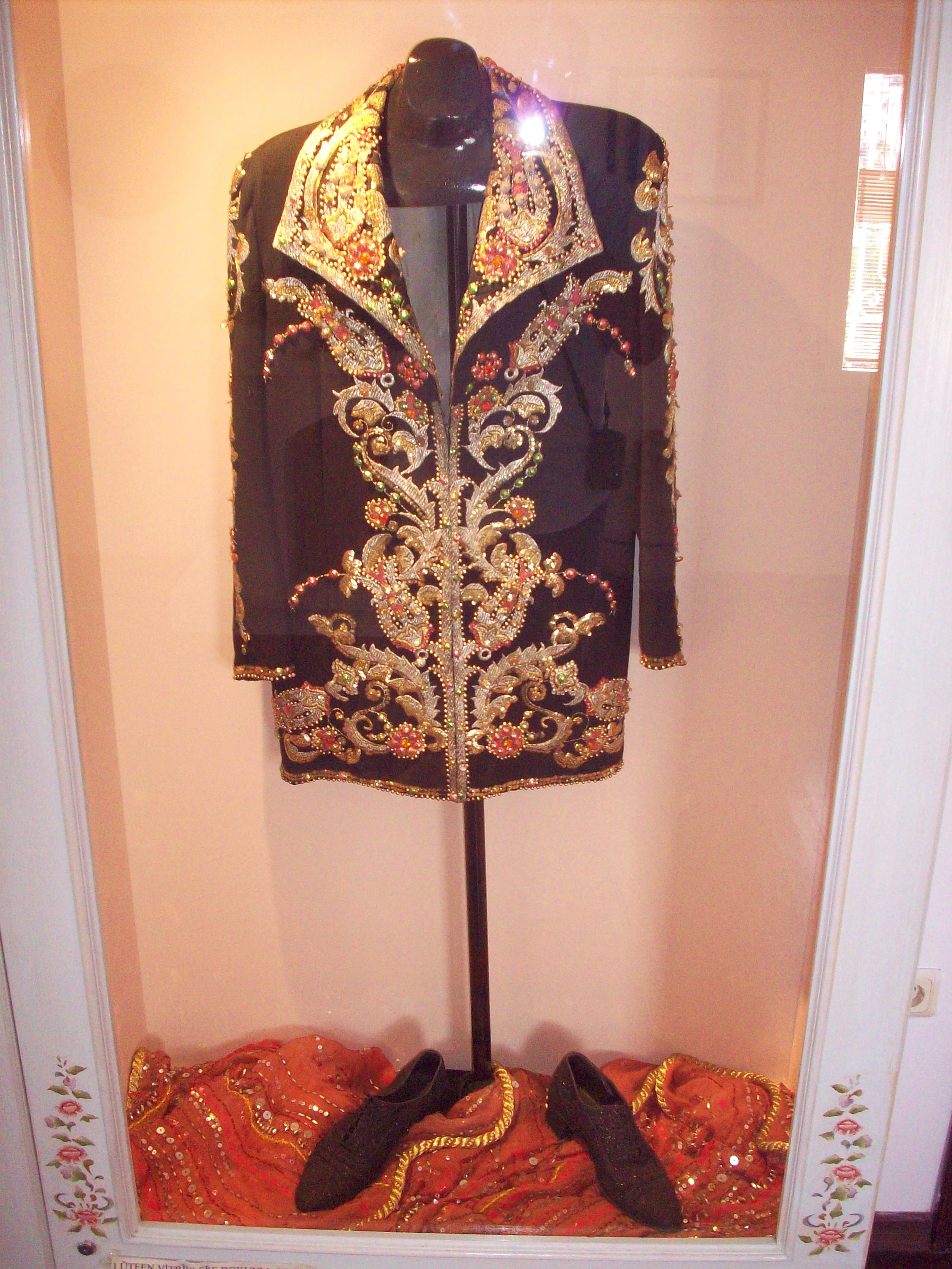 Costume of Turkish singer Zeki Müren shown at his museum in Bodrum, Turkey